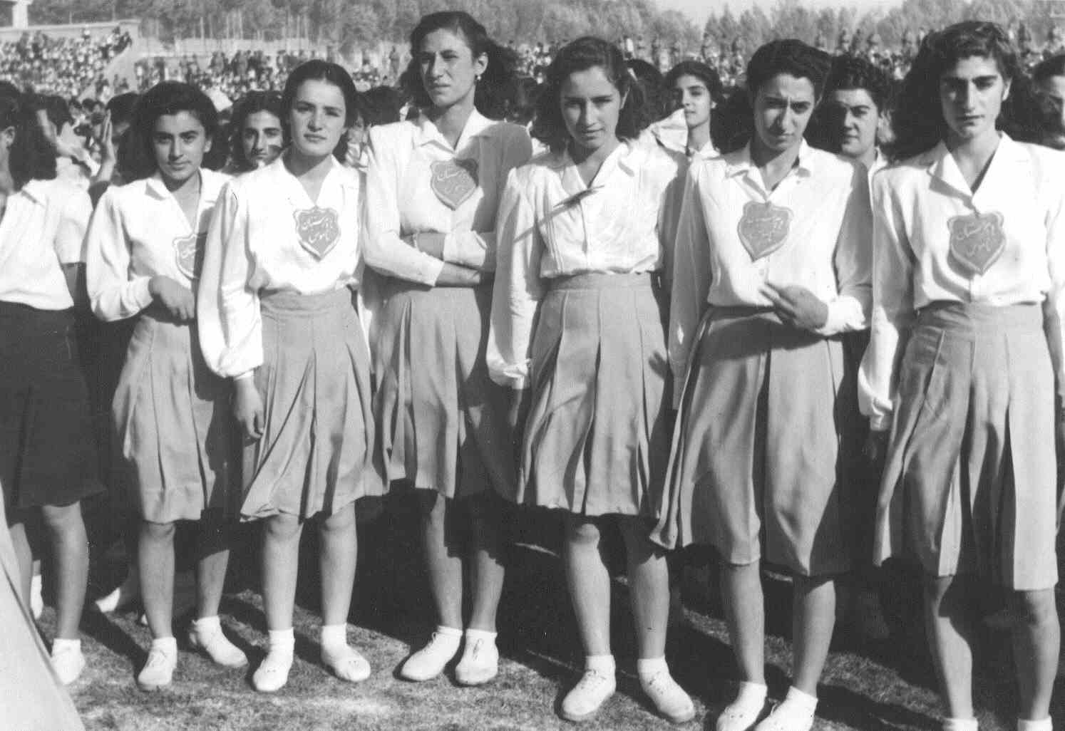 Namoos High school students in a Ceremony in Amjadieh Staduim, Tehran